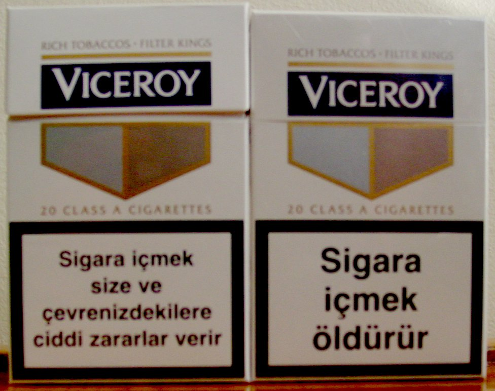 Cigarette pack in Turkey